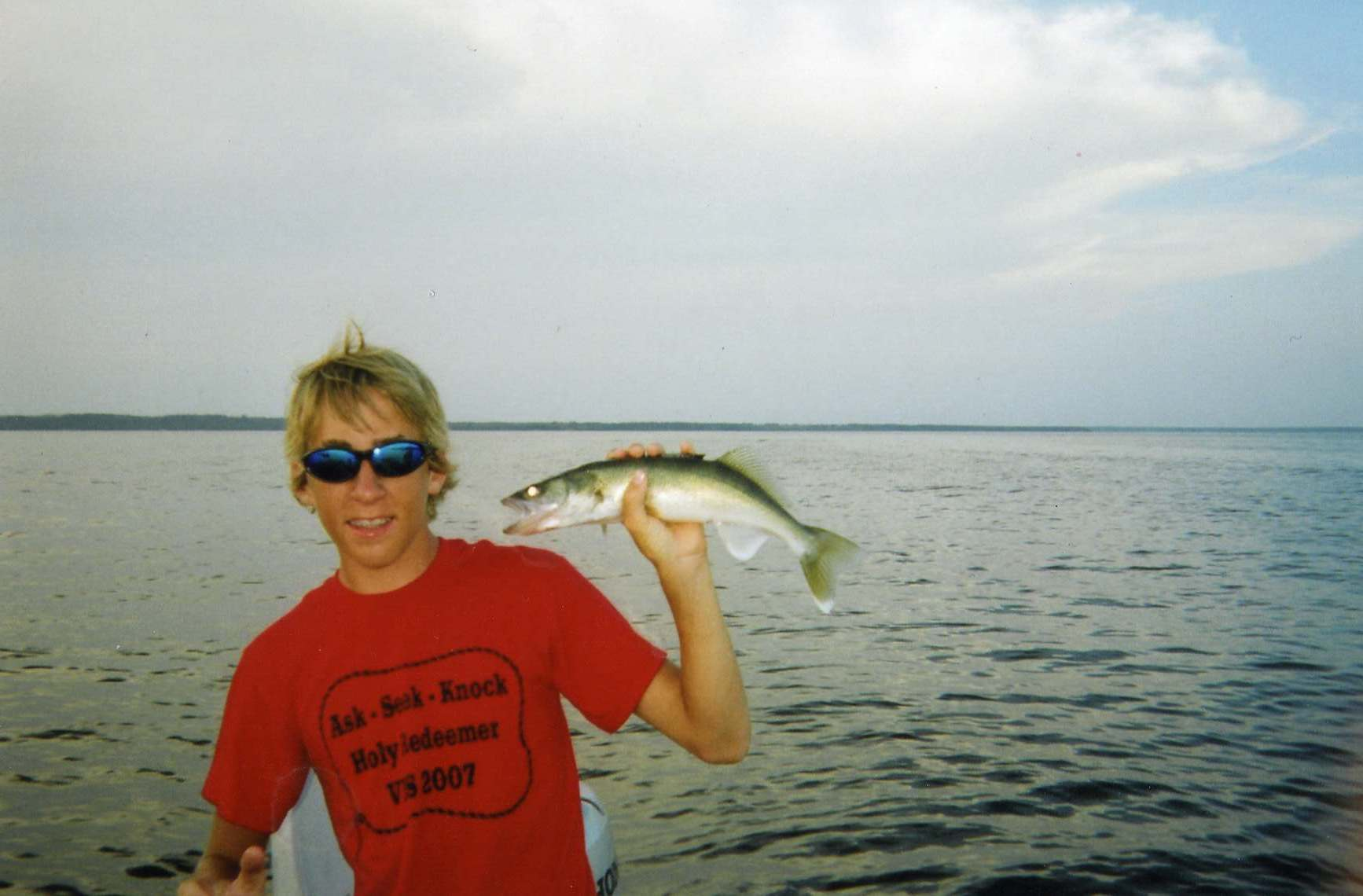 i am the souce of this photo